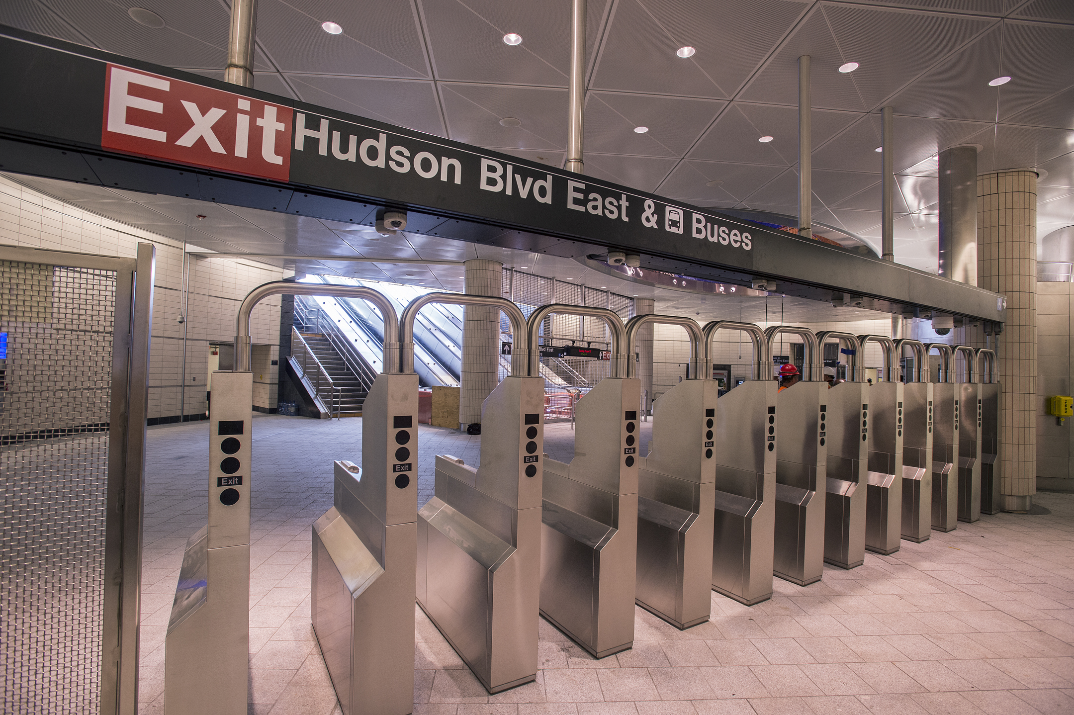 34 St-Hudson Yards Station